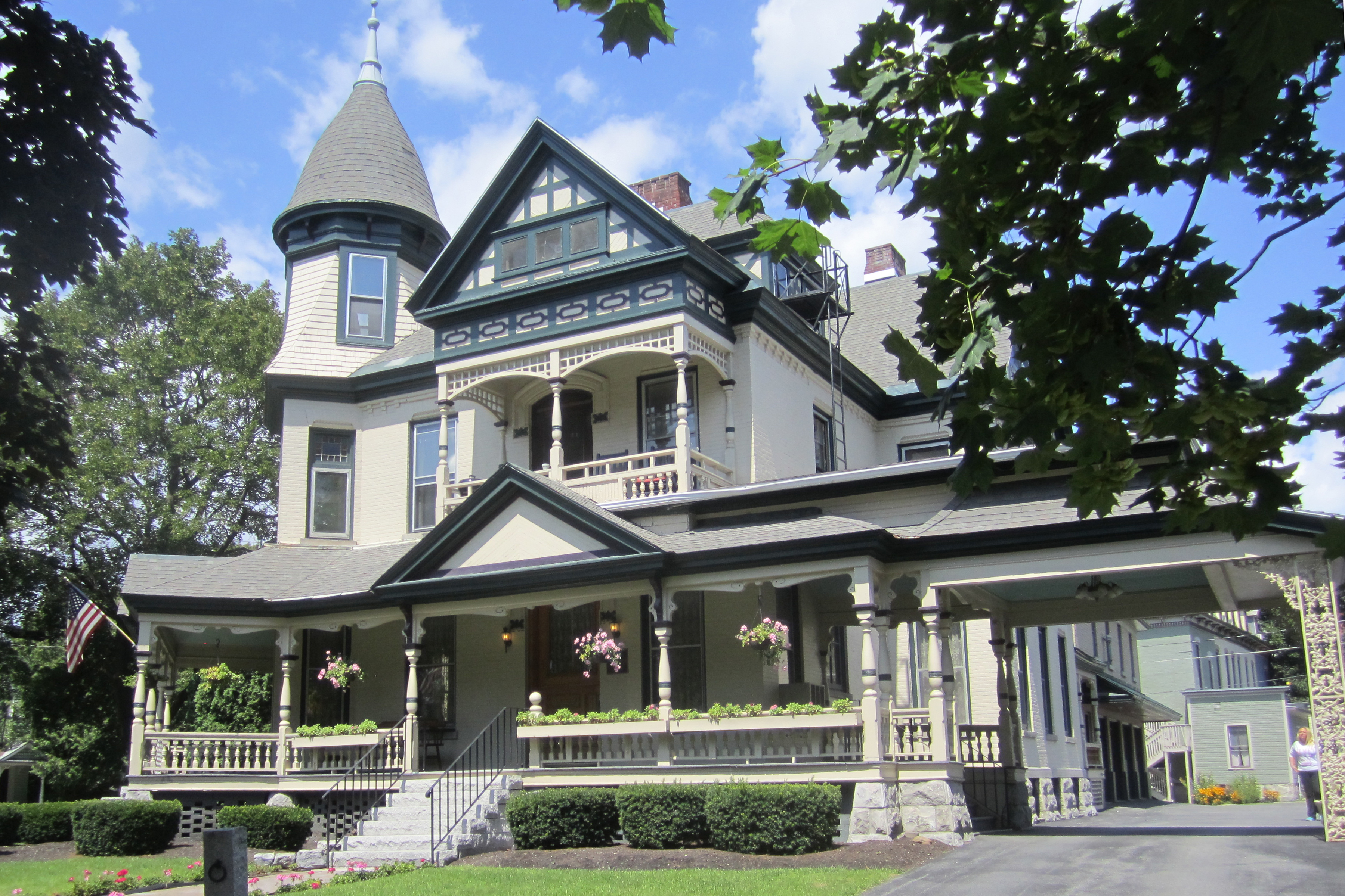 105 Lake Ave., Saratoga Springs NY (1884). "Col. Joseph F. Gilson House", designed by Newton Brezee